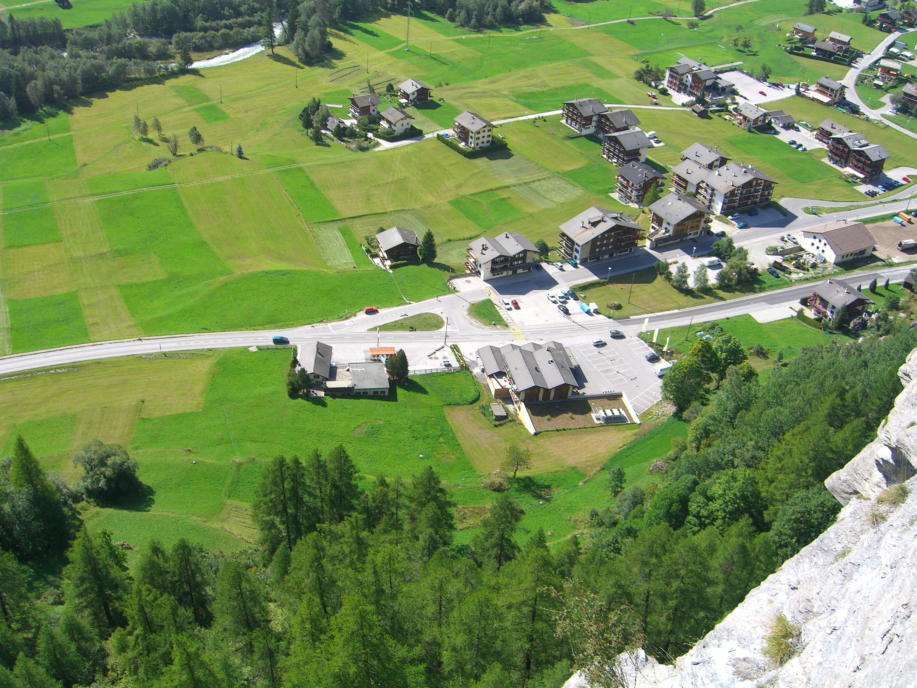 Evolène, Valais, Switzeland